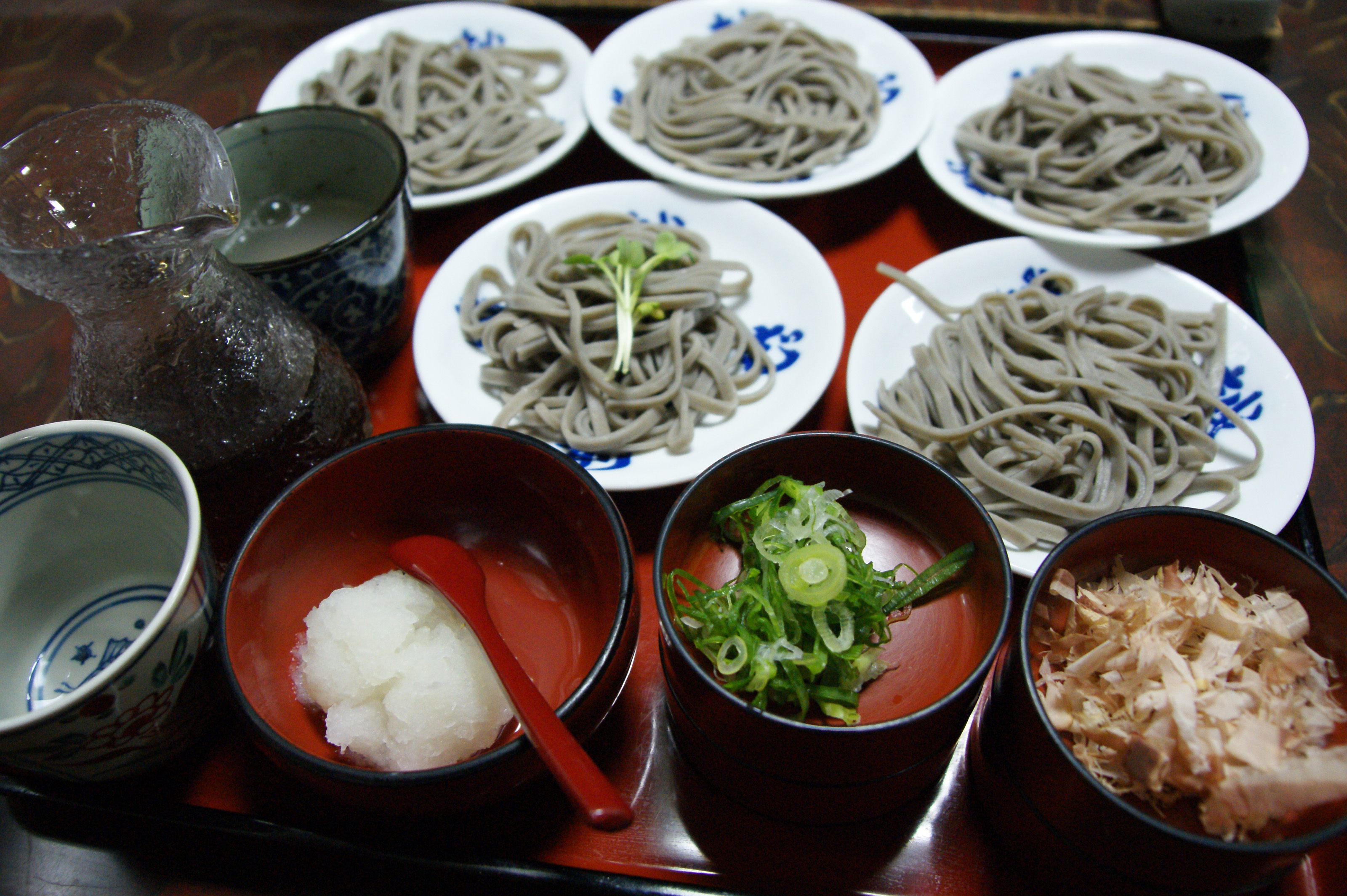 Echizen soba at Fukui, Fukui prefecture, Japan